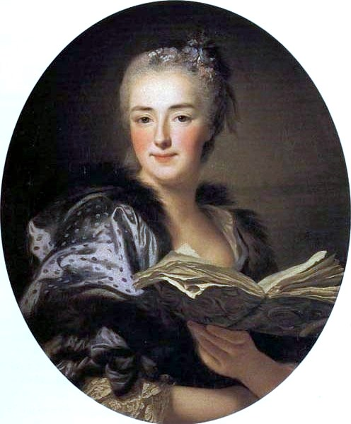 wife of